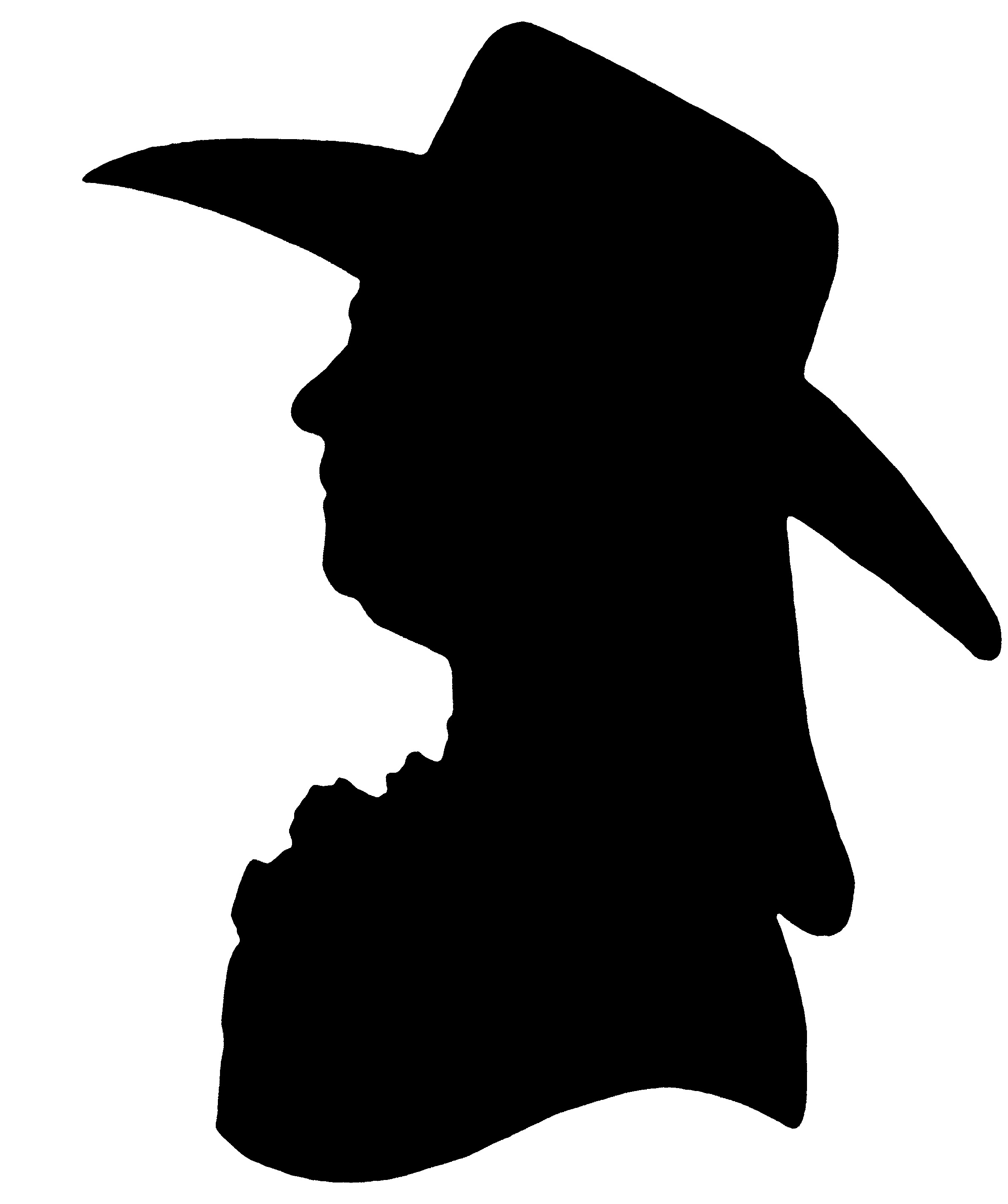 White Watson Derby Geologist. White Watson (1760 – 1835) was an early English geologist, sculptor, stone-mason and carver, marble-worker and mineral dealer. In common with many learned people of his time, he was skilled in a number of artistic and scientific areas, becoming a writer, poet, journalist, teacher, botanist and gardener as well as geologist and mineralogist.